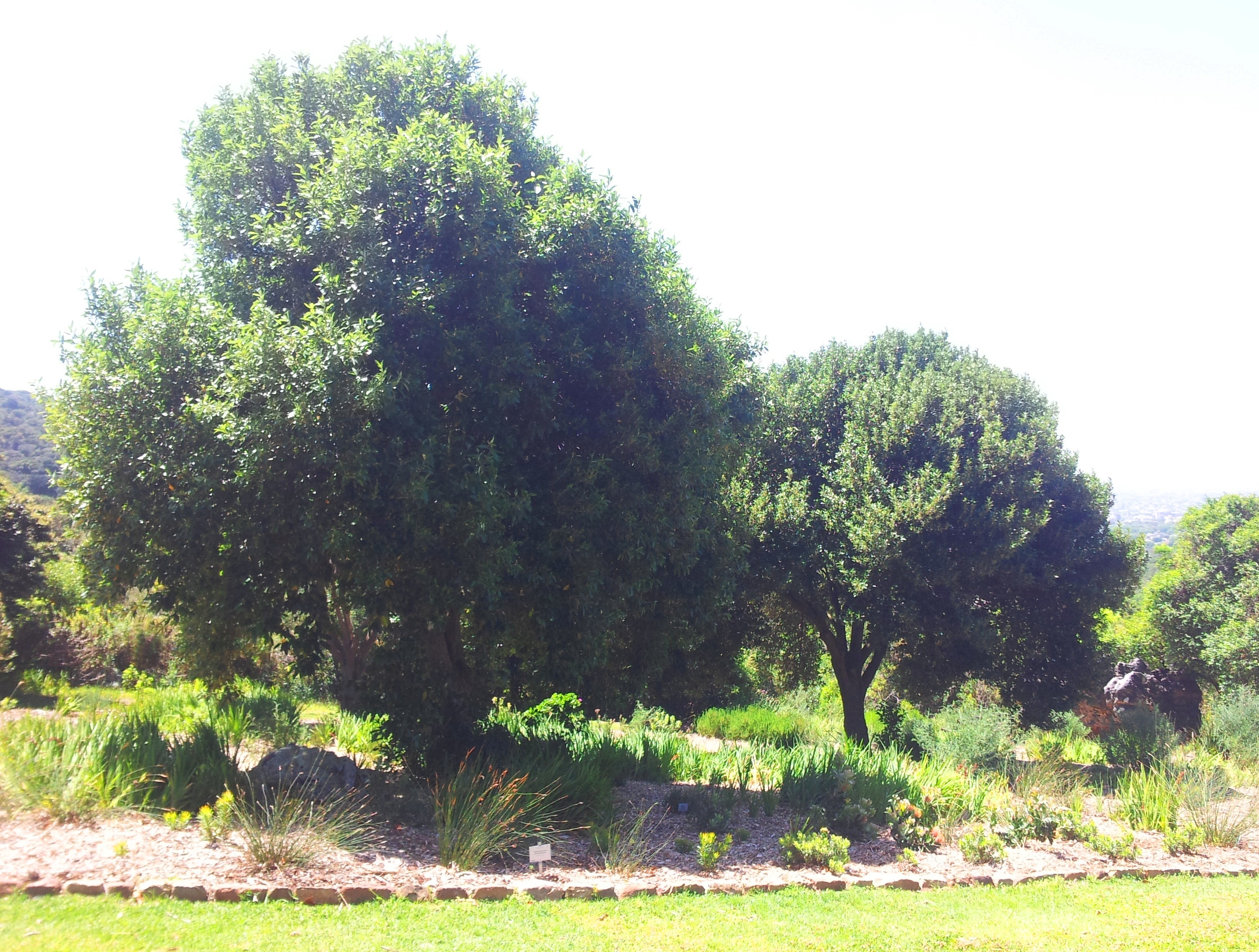 Small Kiggelaria africana - Wild Peach Trees - Cape Town